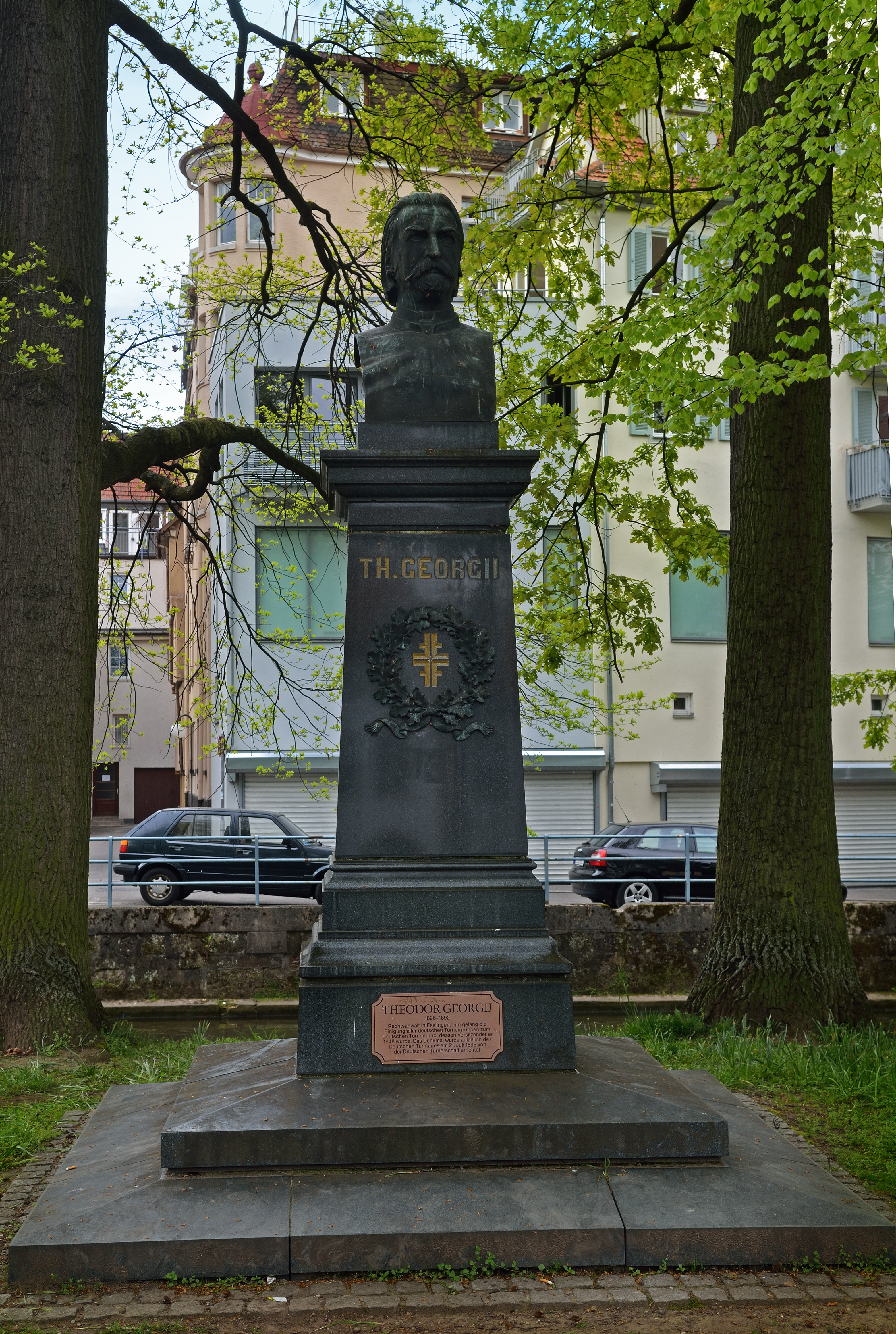 The statue of Theodor Georgii in Esslingen, Germany.